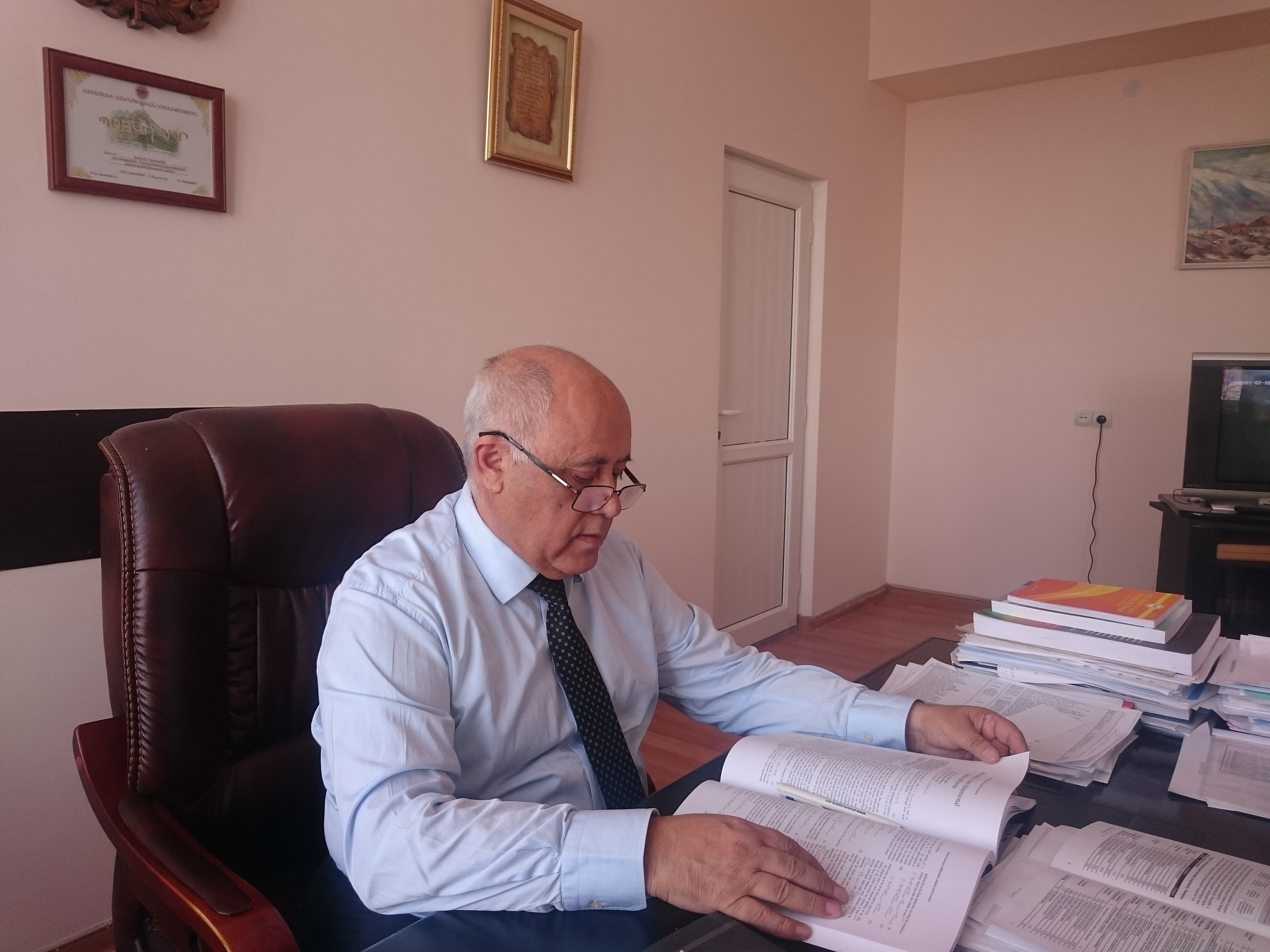 Politican